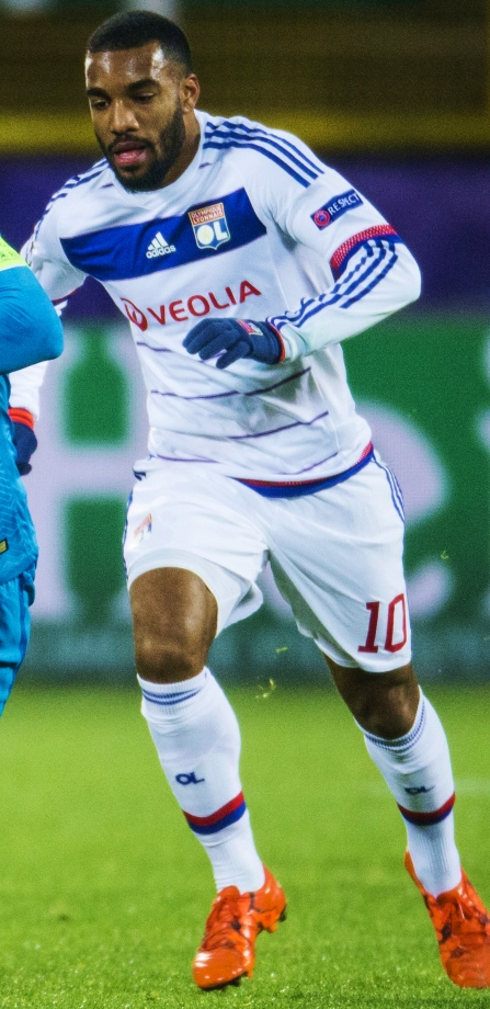 Alexandre Lacazette